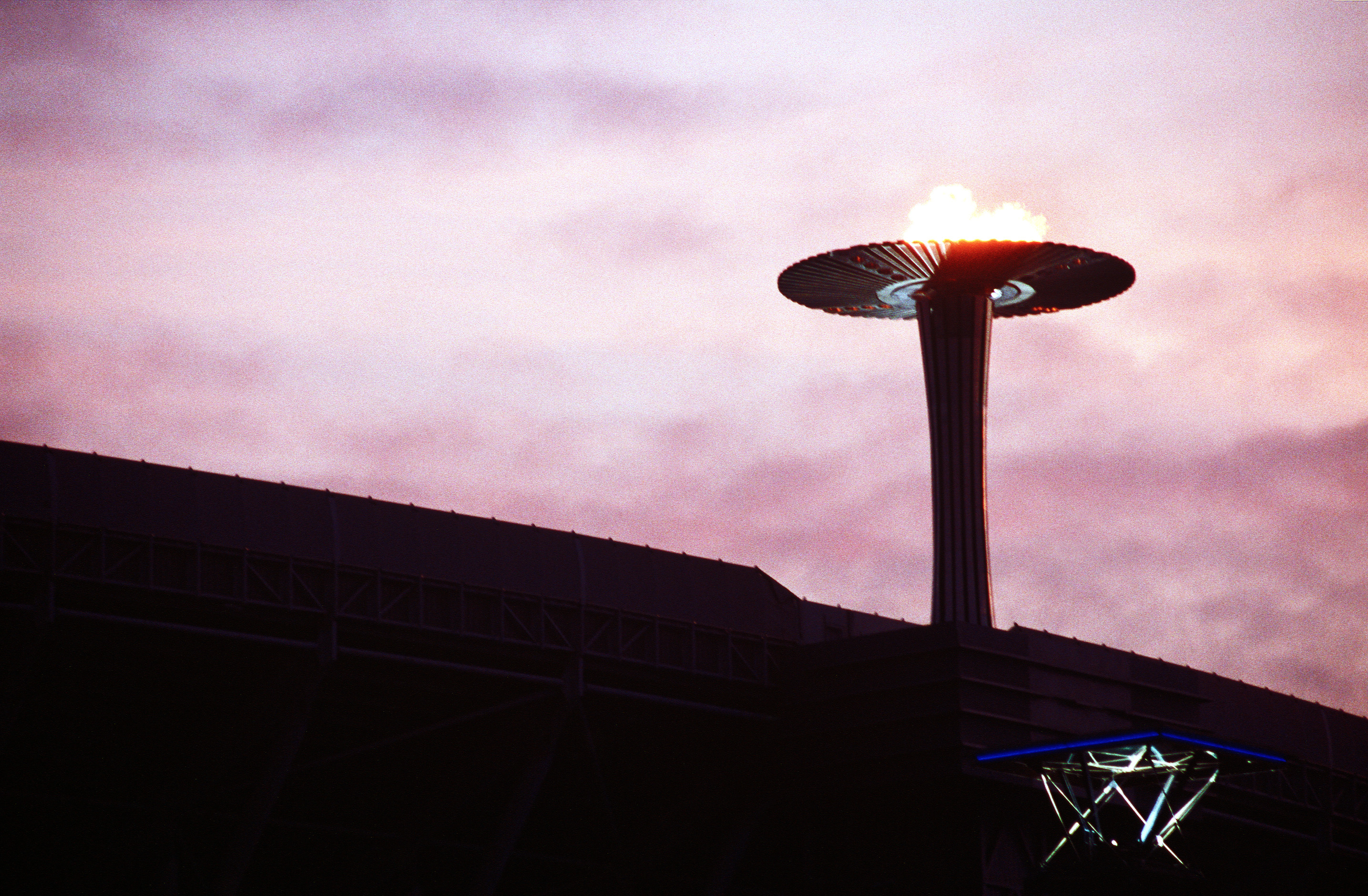 A long shot from a low angle looking up at the Olympic Cauldron as it burns over the Olympic Stadium in Sydney, Australia, from September 15th through October 1st, 2000, when the torch is relit and passed on the nation of Greece.